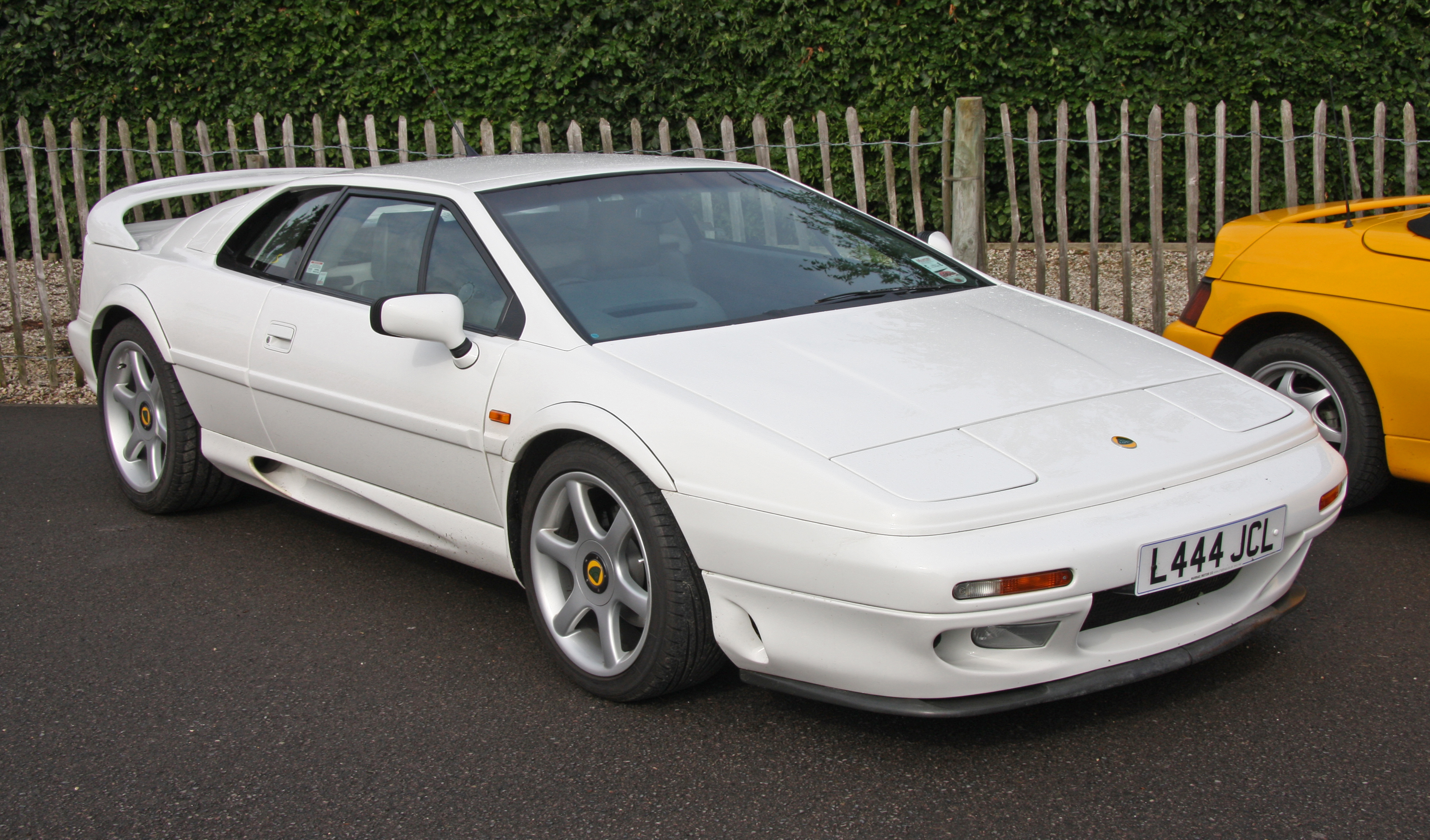 1995 Lotus Esprit S4s, turbocharged 2174cc inline-four